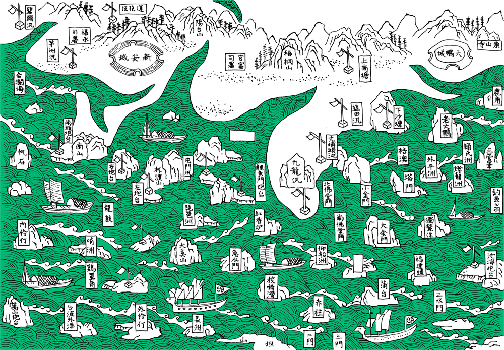 Redraw of the Maritime Map of Xin'an District (1819)